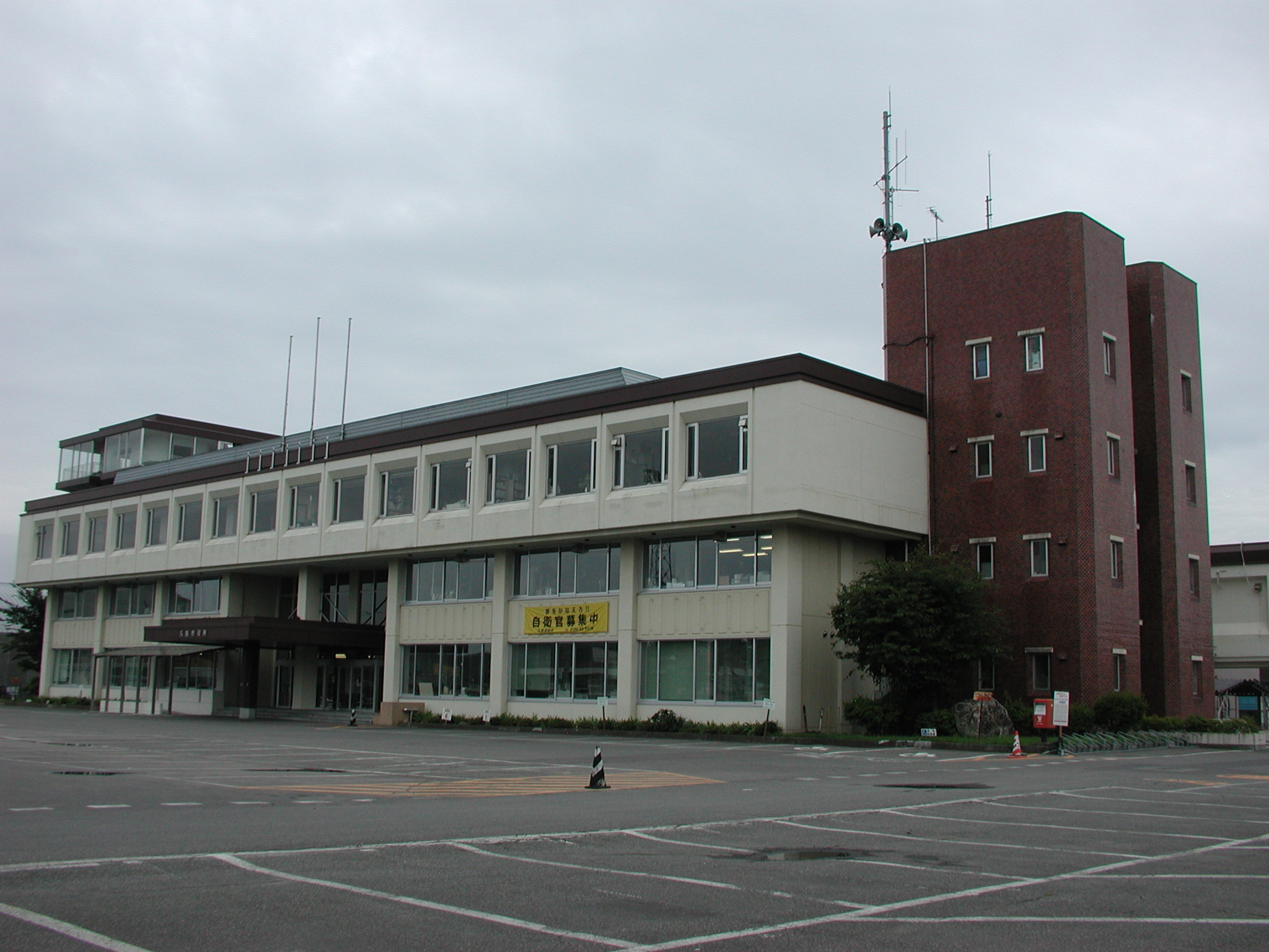 Kuji City Office